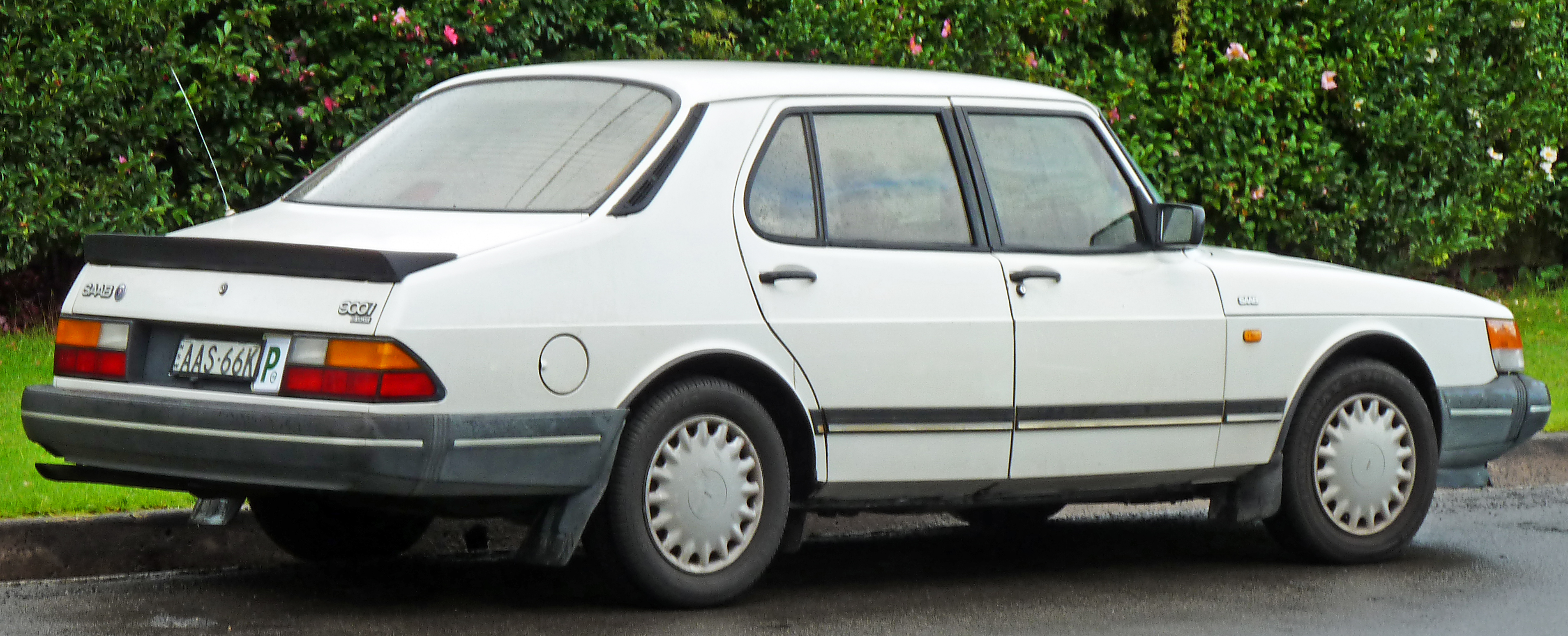 1990 Saab 900i sedan. Photographed in Roseville, New South Wales, Australia.